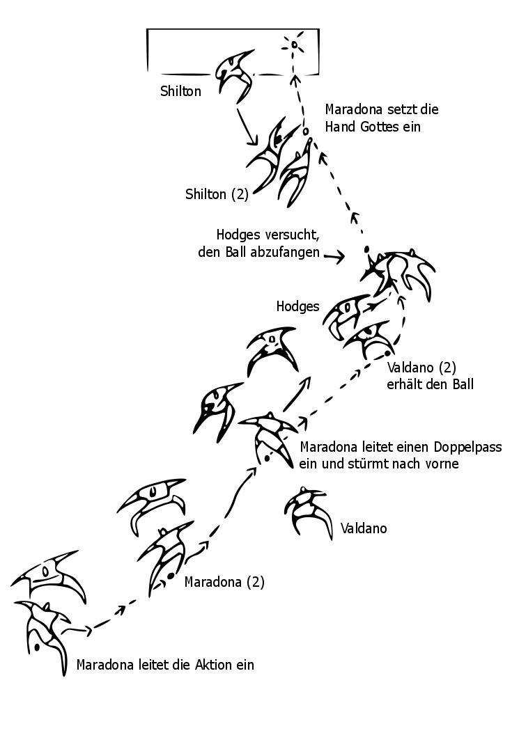 Illustration is a drawing created by Enriquecardova, released freely to public domain. Small inset slice, is modified from the image on Wikipedia article "Hand of God Goal" and is a small excerpt of the original under fair use for educational purposes to illustrate soccer tactics and skills. From the exact same image minus a fair use image used for decoration. Vectorized and modified by Noieraieri. This version is translated to german by Protossdesign